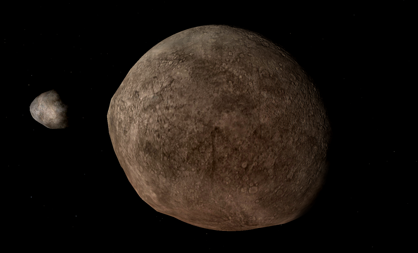 Artist's rendition of the binary plutino 38628 Huya and its satellite S/2012 (38628) 1 (not to scale). The colors and shape of Huya are based on known observational data. This image is rendered in Celestia, a real-time planetarium software.